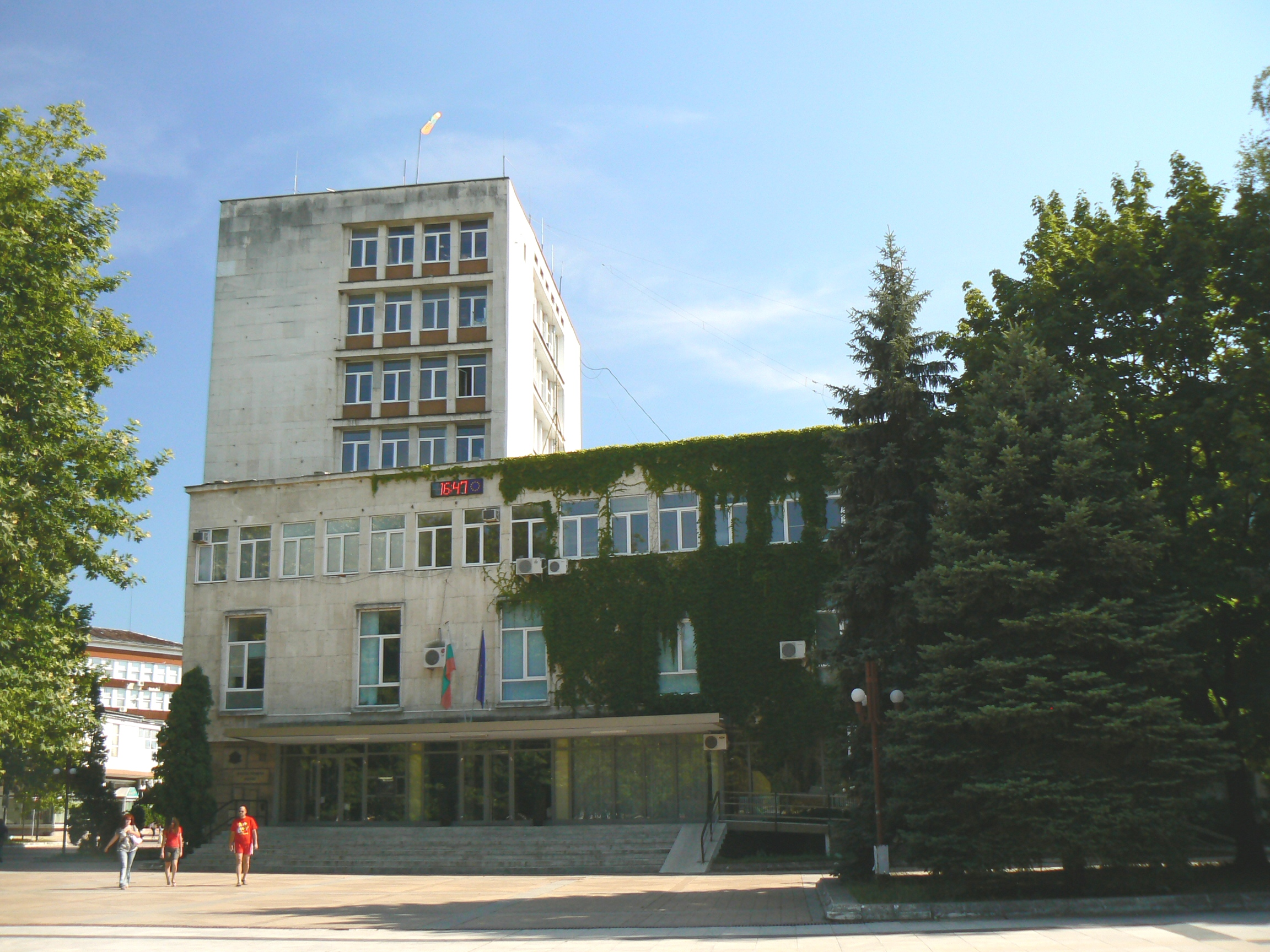 Montana district government. Montana, Bulgaria